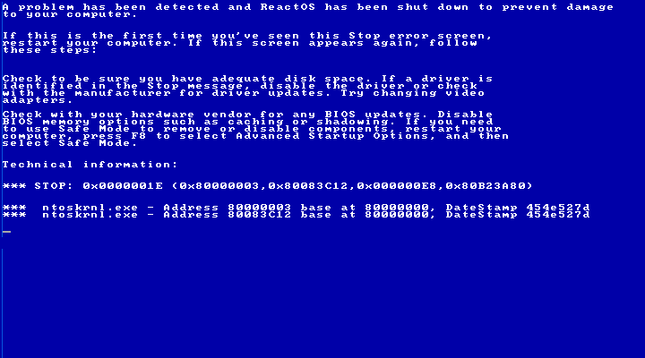 ReactOS Bluescreen